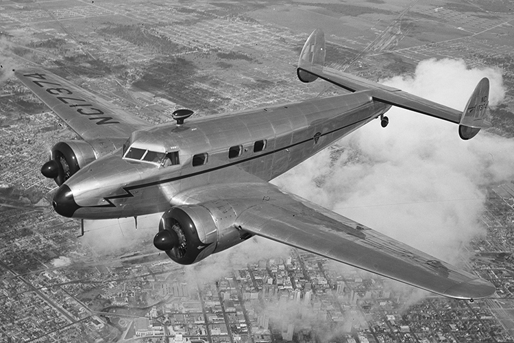 Title: [Lockheed 12A Electra Junior in Flight over Houston] Creator: Robert Yarnall Richie Date: March 1940 Place: Houston, Texas Part Of: Robert Yarnall Richie Photograph Collection Description: A Lockheed Model 12A Electra Junior, belonging to the Superior Oil Company, in flight over Houston, Texas. Physical Description: 1 negative film: black and white; 10 x 13 cm File: ag1982_0234_2116_27_sm_opt.jpg Rights: Please cite DeGolyer Library, Southern Methodist University when using this file. A high-resolution version of this file may be obtained for a fee. For details see the web page. For other information, . For more information, View the Robert Yarnall Richie Photograph Collection